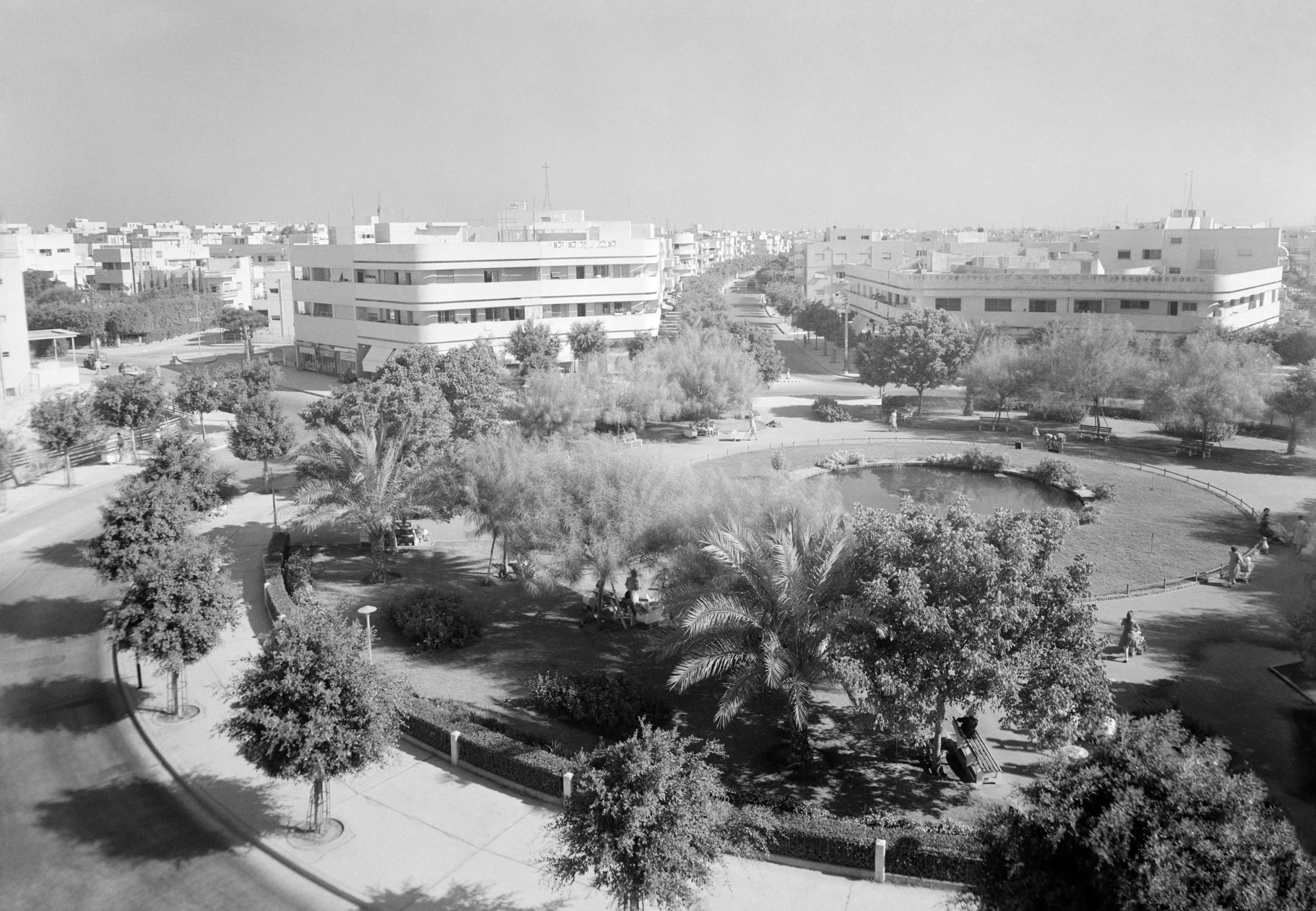 Dizengoff Circle (1940s) — in Tel Aviv, British Mandate of Palestine (Israel) . With Modernist buildings, in White City (present day heritage district), Tel Aviv.